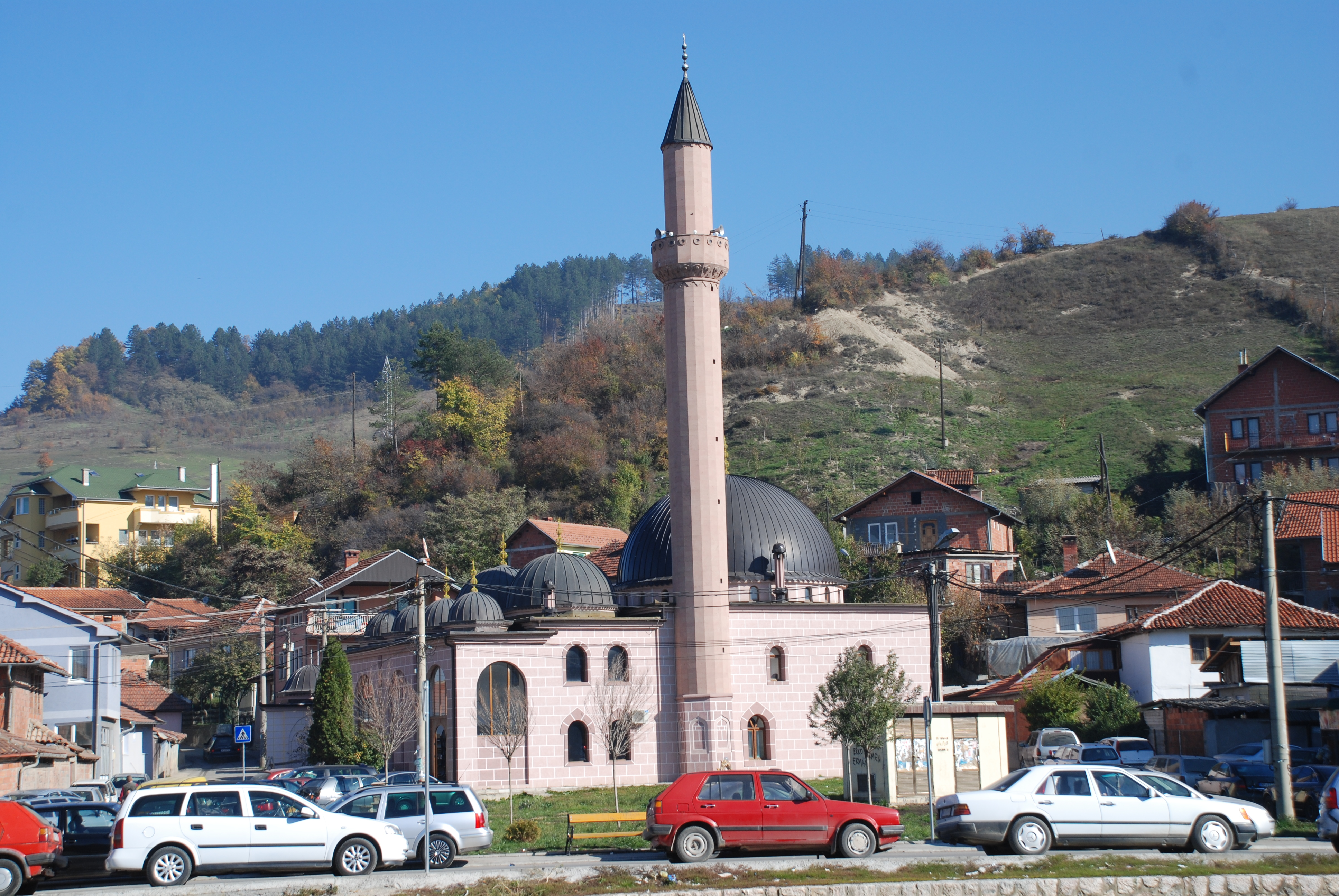 Kurt Čelebijna Mosque